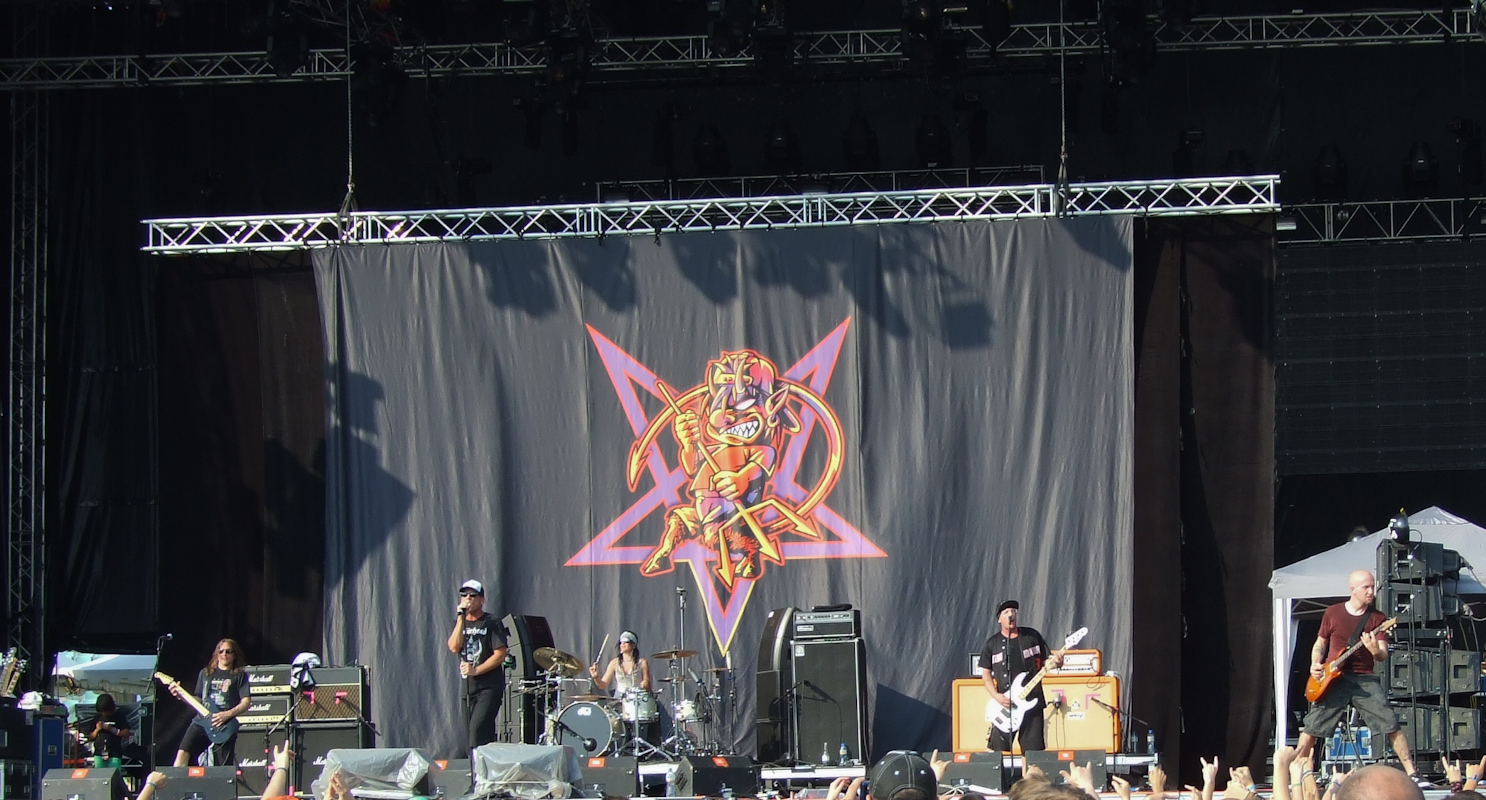 The American rock band Ugly Kid Joe performing at Sofia Rocks Fest 2012, Bulgaria.